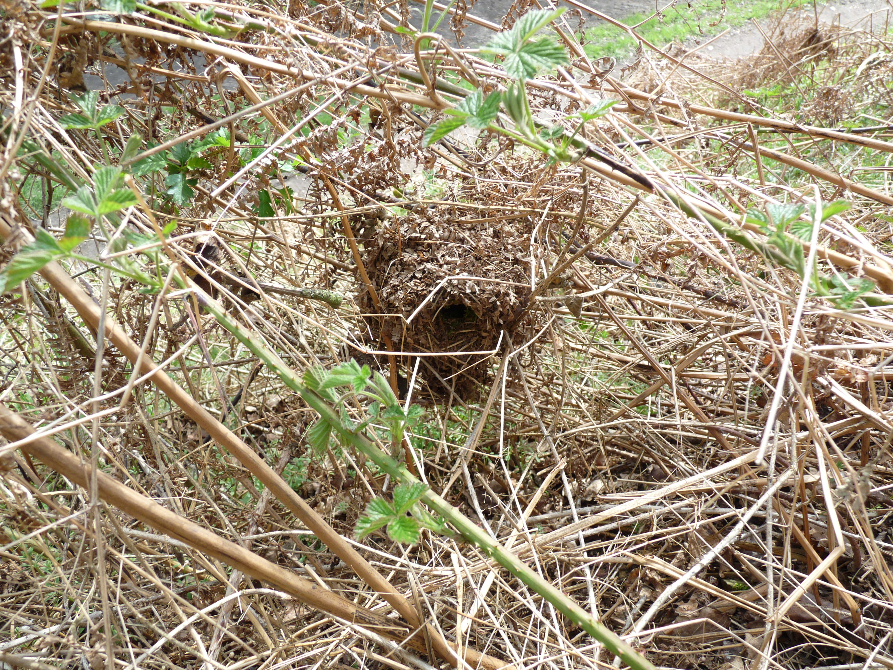 Latin name Troglodytes troglodytes Family Wrens (Troglodytidae) Overview The wren is a tiny brown bird, although it is heavier, less slim, than the even... Where to see them ... When to see them All year round. What they eat Insects and spiders